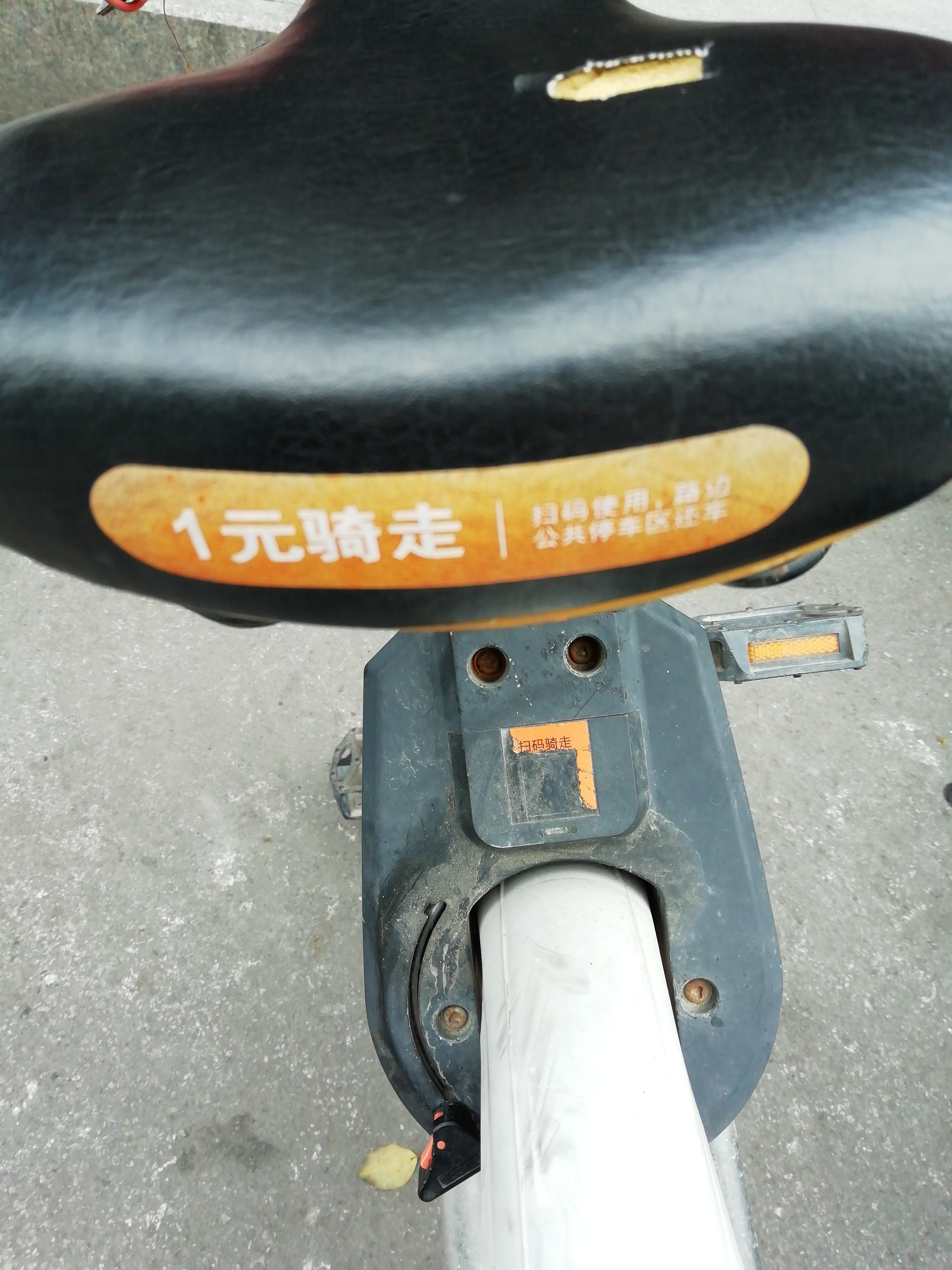 A broken QR Code on the back of Mobike, taken in Suzhou